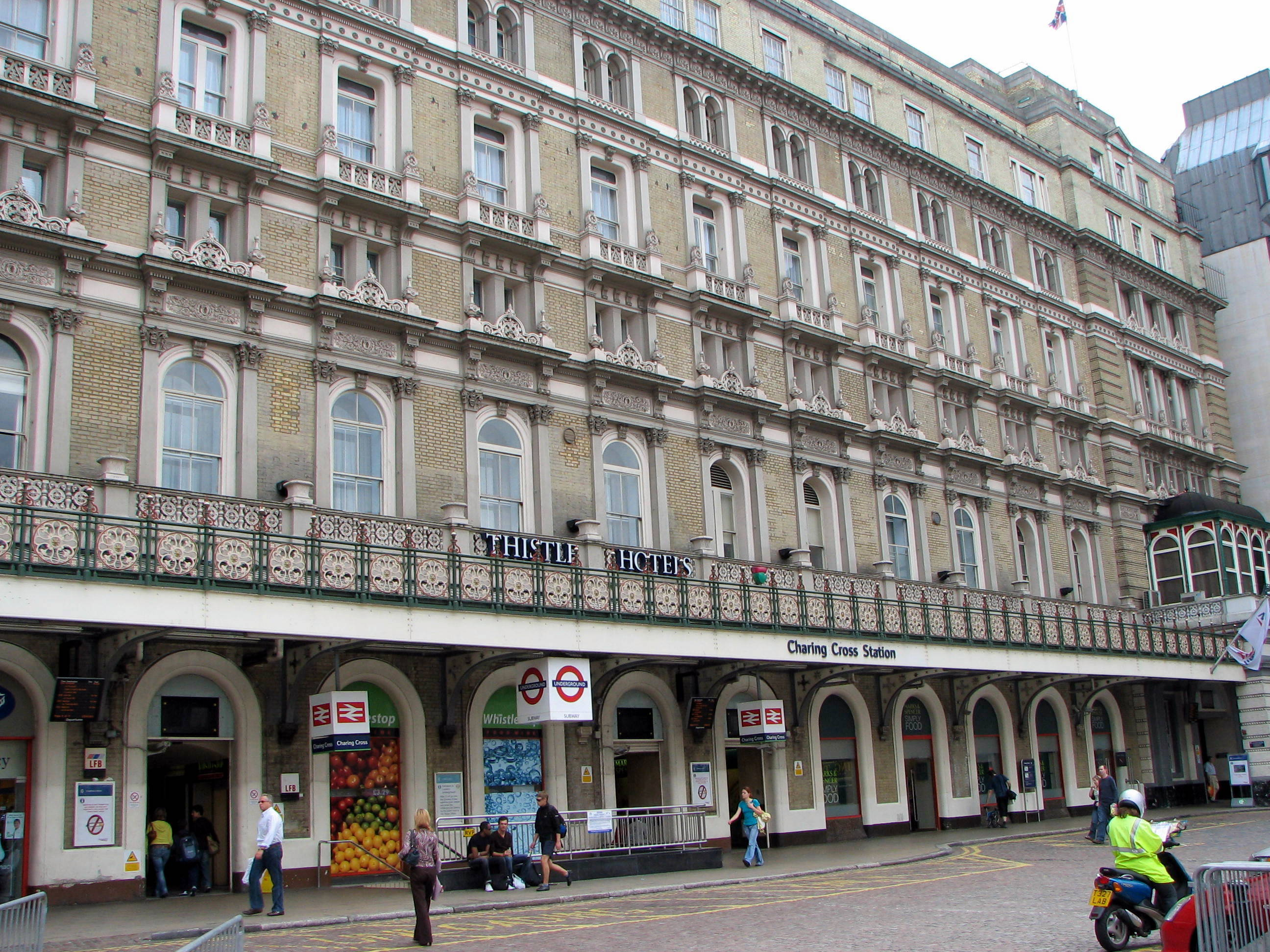 Charing Cross Station and Thistle Charing Cross Hotel, London